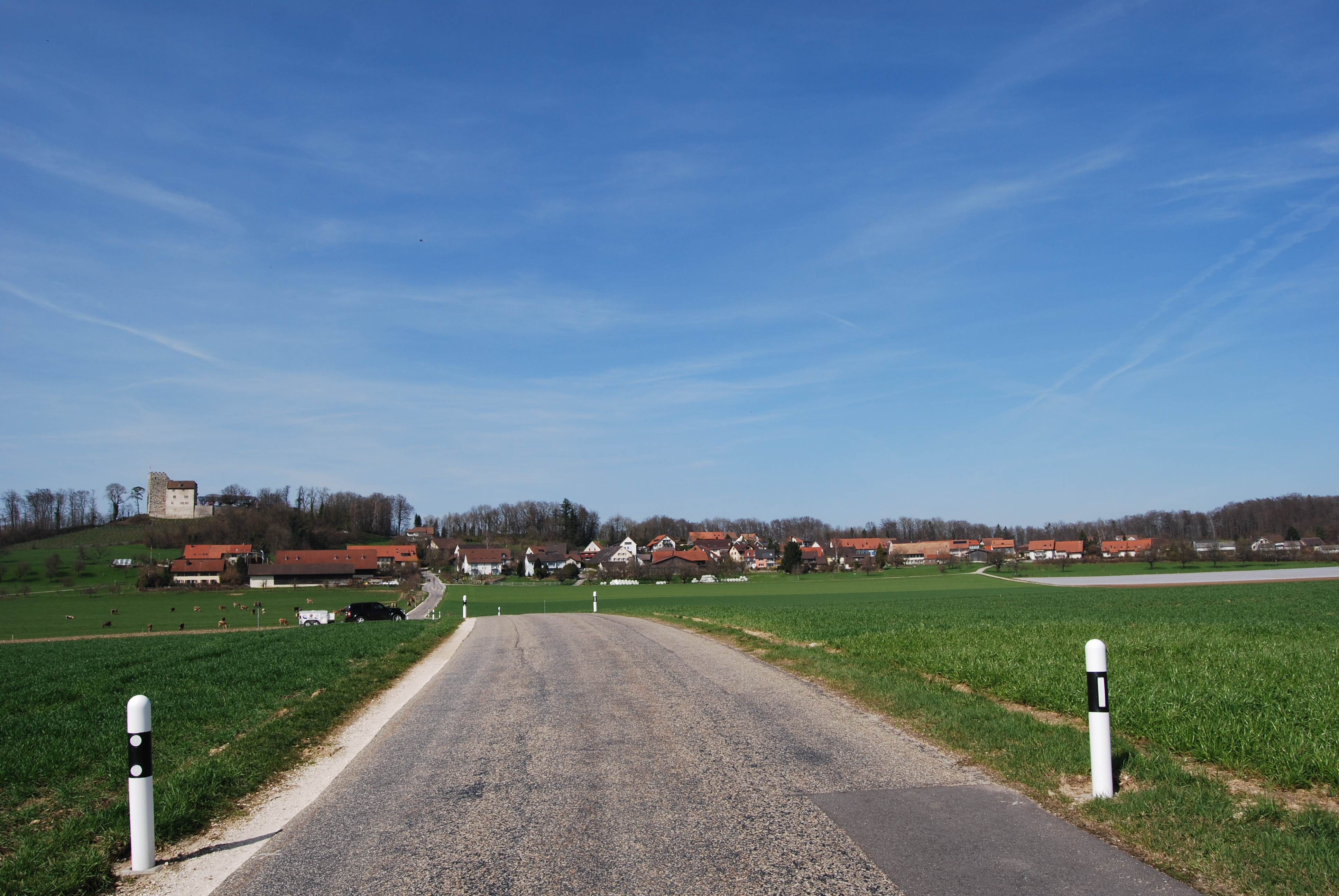 Habsburg, canton of Aargau, SwitzerlandEsperanto: Habsburgo, Kantono Argovio, Svislando